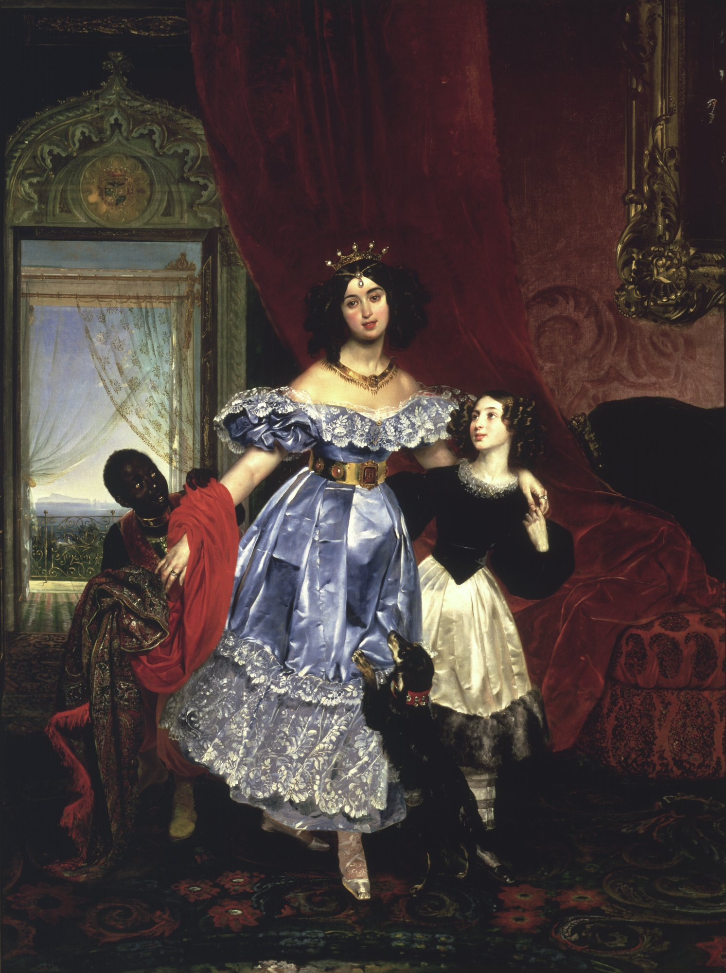 Portrait of Countess Samoilova with (Giovanina) Amazilia Pacini and black boy